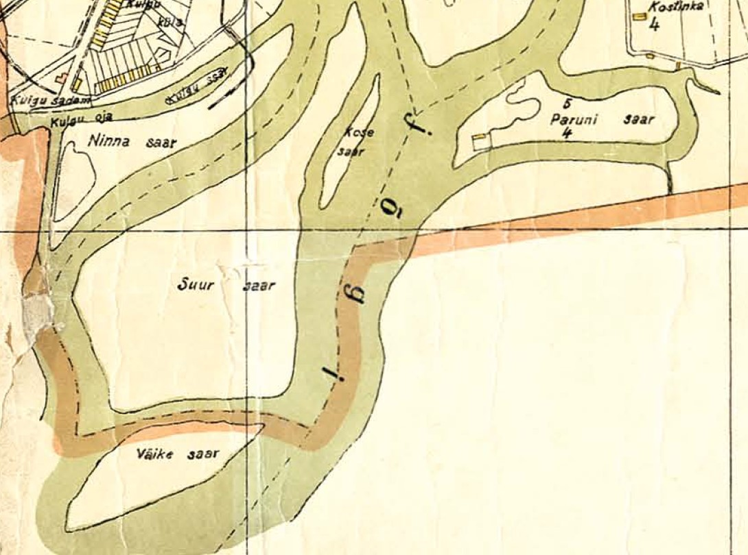 Islands in Narva River from old map (1929)